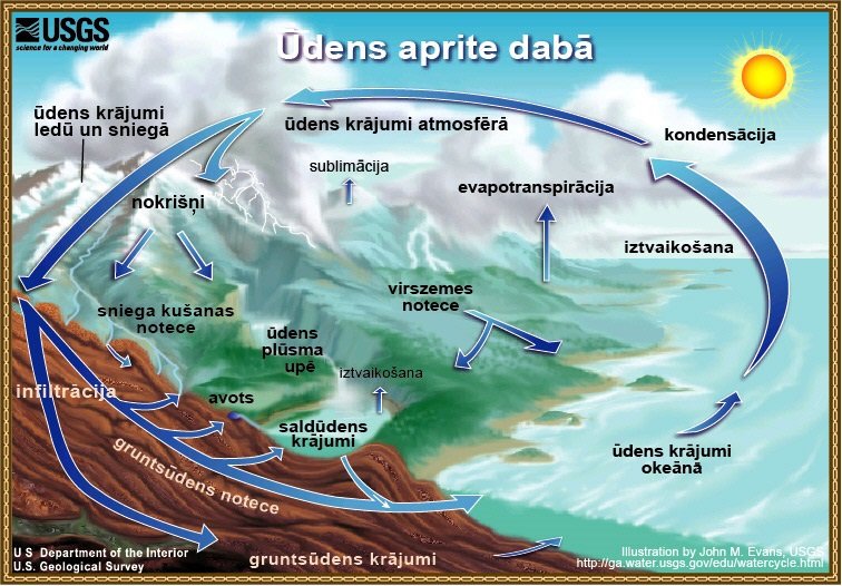 Water-Cycle Diagram (Latvian)